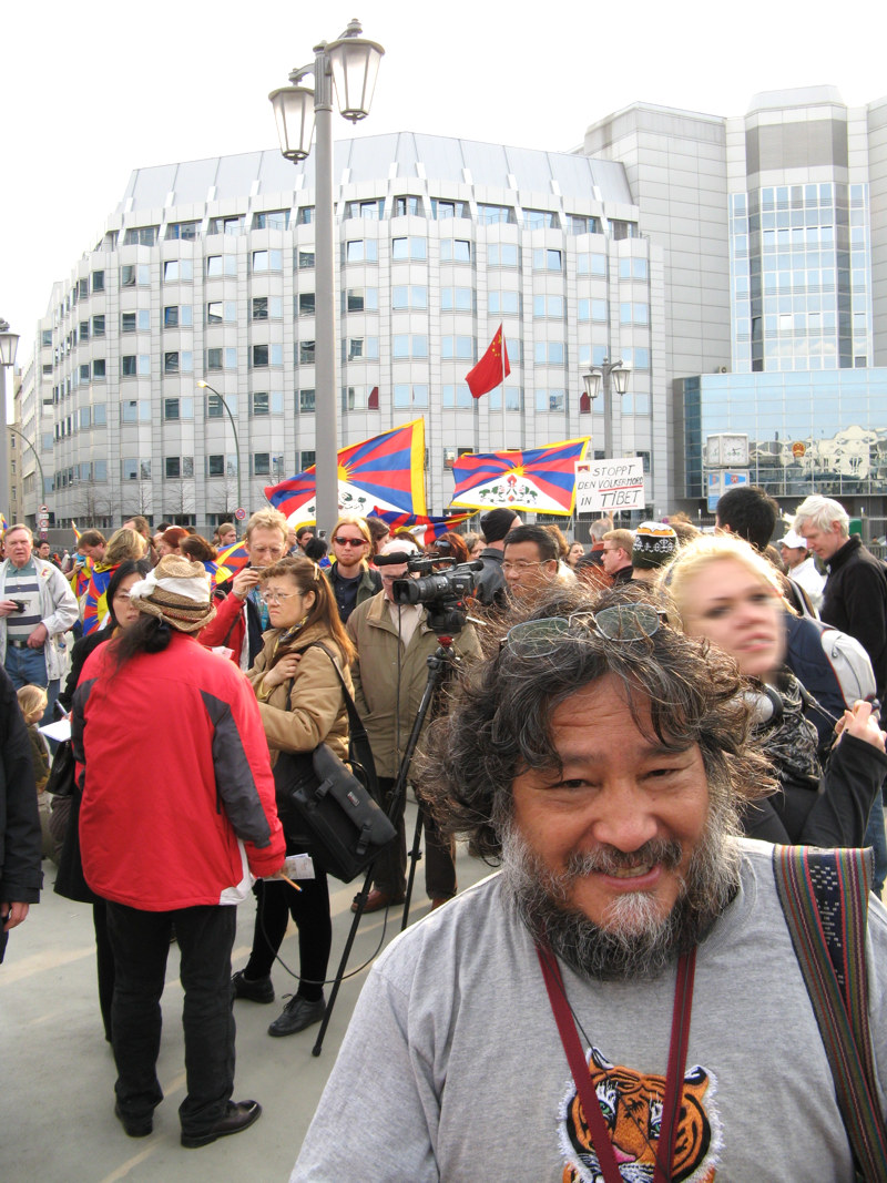 Demonstration for human rights in Tibet in front of the chinese embassy in Berlin, Germany. Front right Tsewang Norbu, co-founder of the German Tibet Initiative Deutschland e. V.